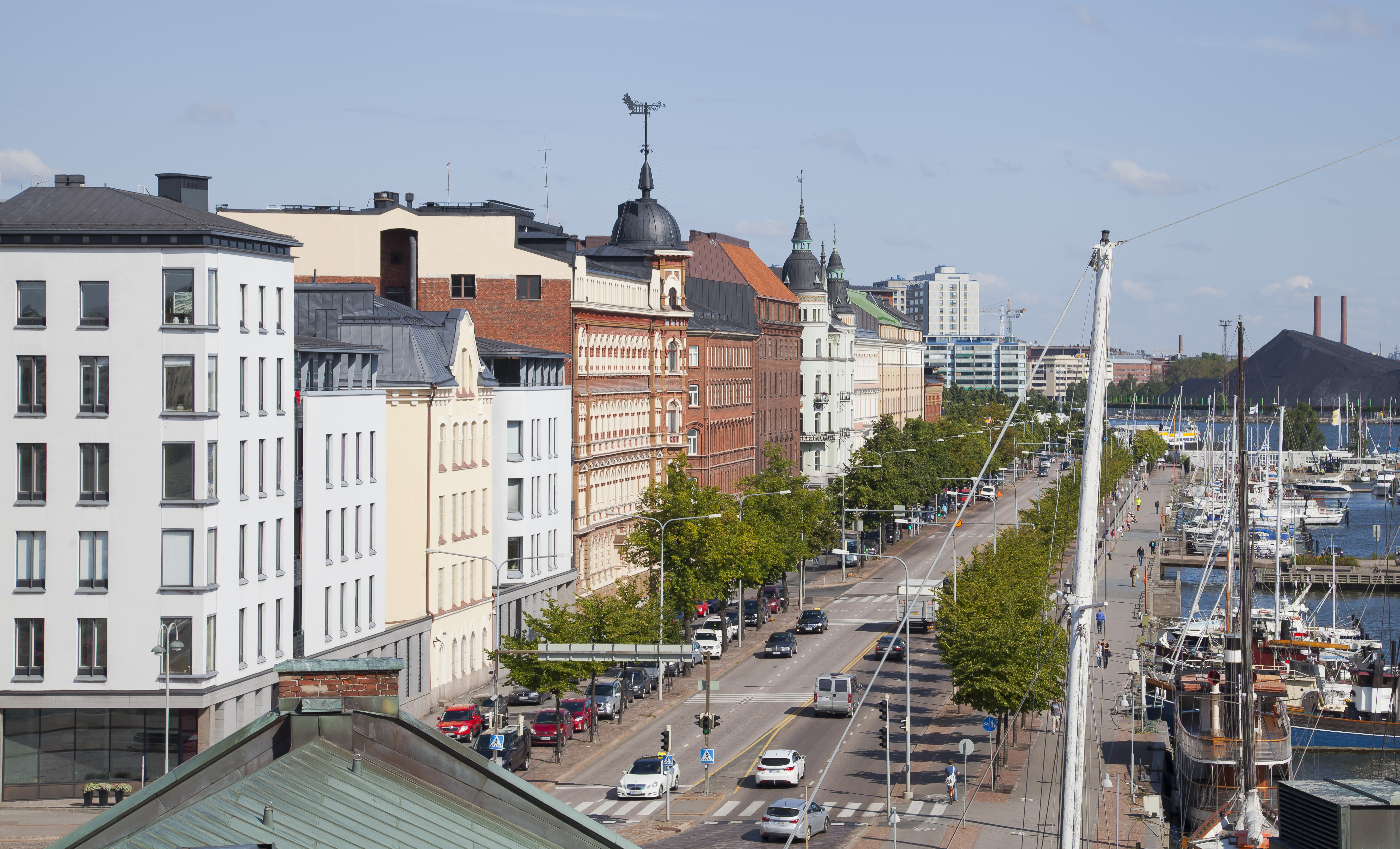 Pohjoisranta street in Helsinki, Finnland